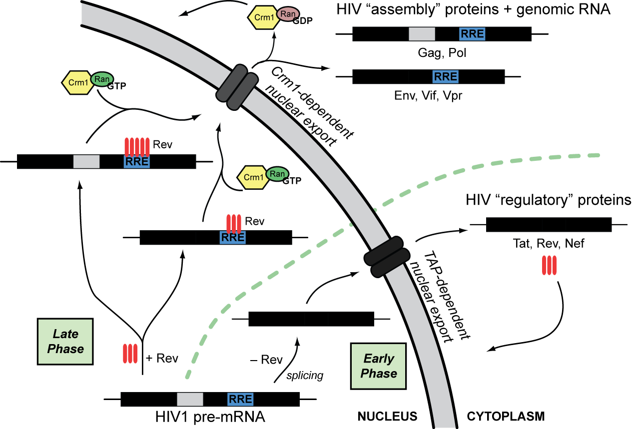 Rev-mediated HIV mRNA transport